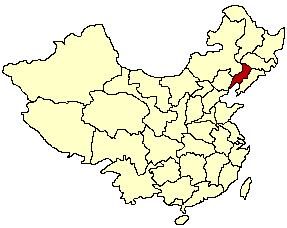 PRC provinces (1949) - Liaoxi